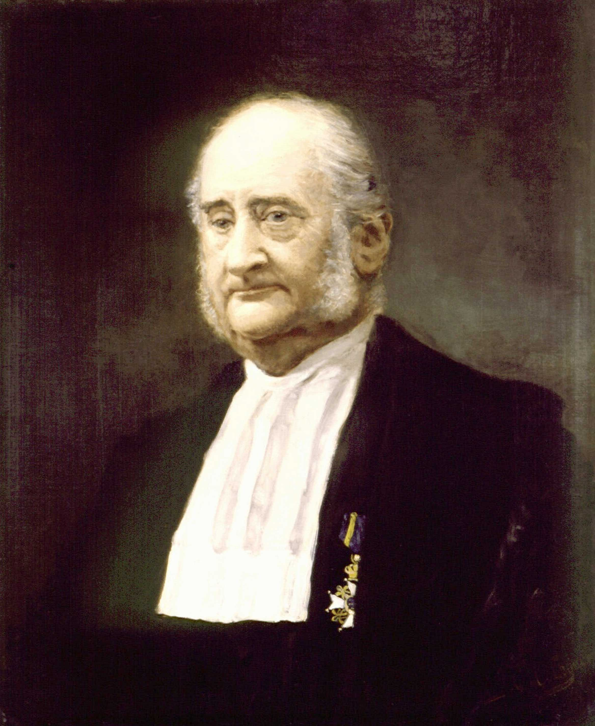 Louis Christiaan van Goudoever also: Lodewijk Christiaan van Goudoever, Ludovicus Christianus van Goudoever (1820-1894) Dutch Physician